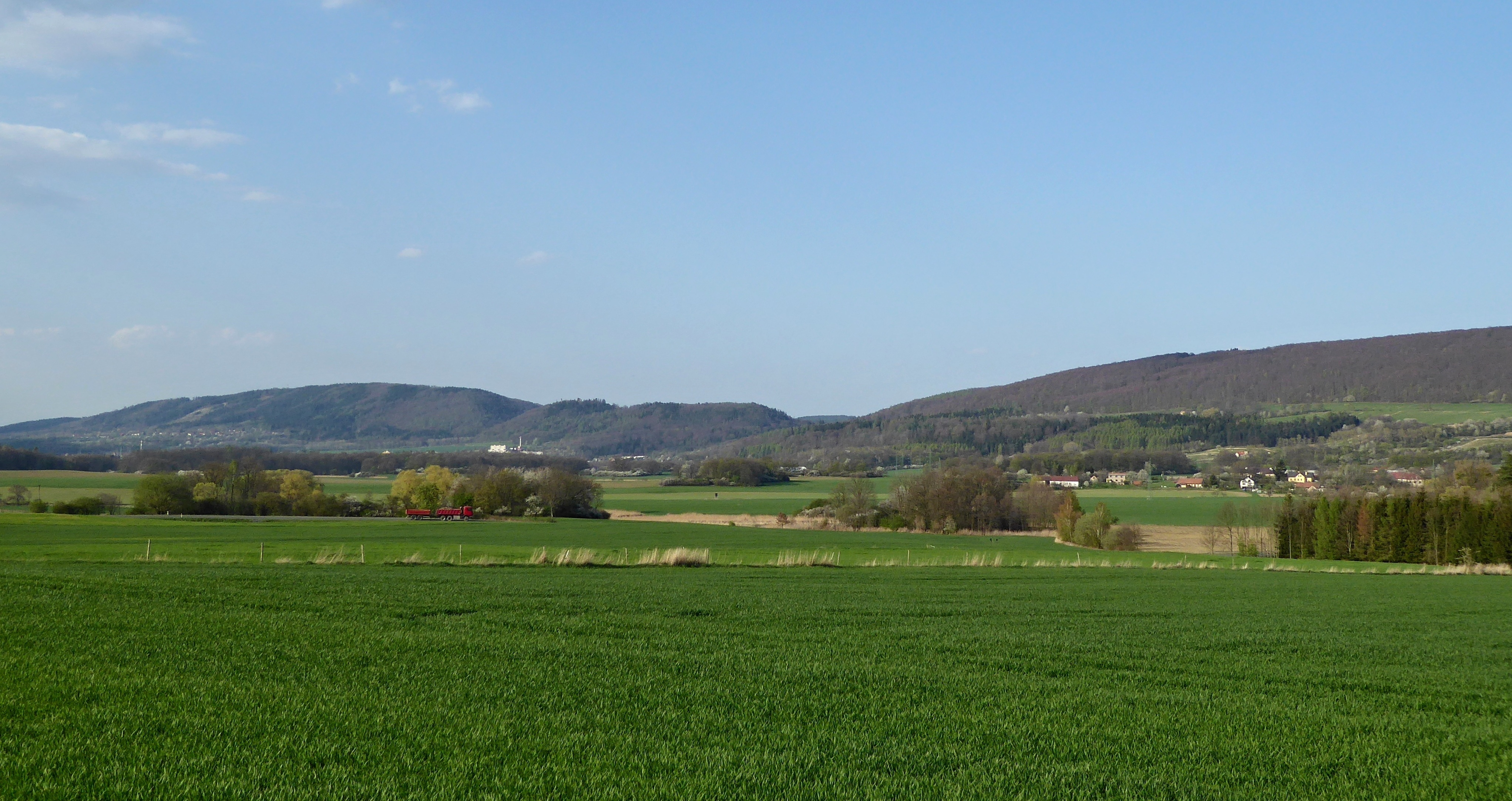 Iron Mountains are mountain range and geomorphological whole with total area of 761.77 km square in the northern part Bohemian-Moravian highlands in Czechia. The Iron Mountains are not mountains, it is a flat highland. The mountain effect appears when you look at the high ridge of highland from the southwest. Photo location: Czechia, Pardubice Region, villages Pařížov.